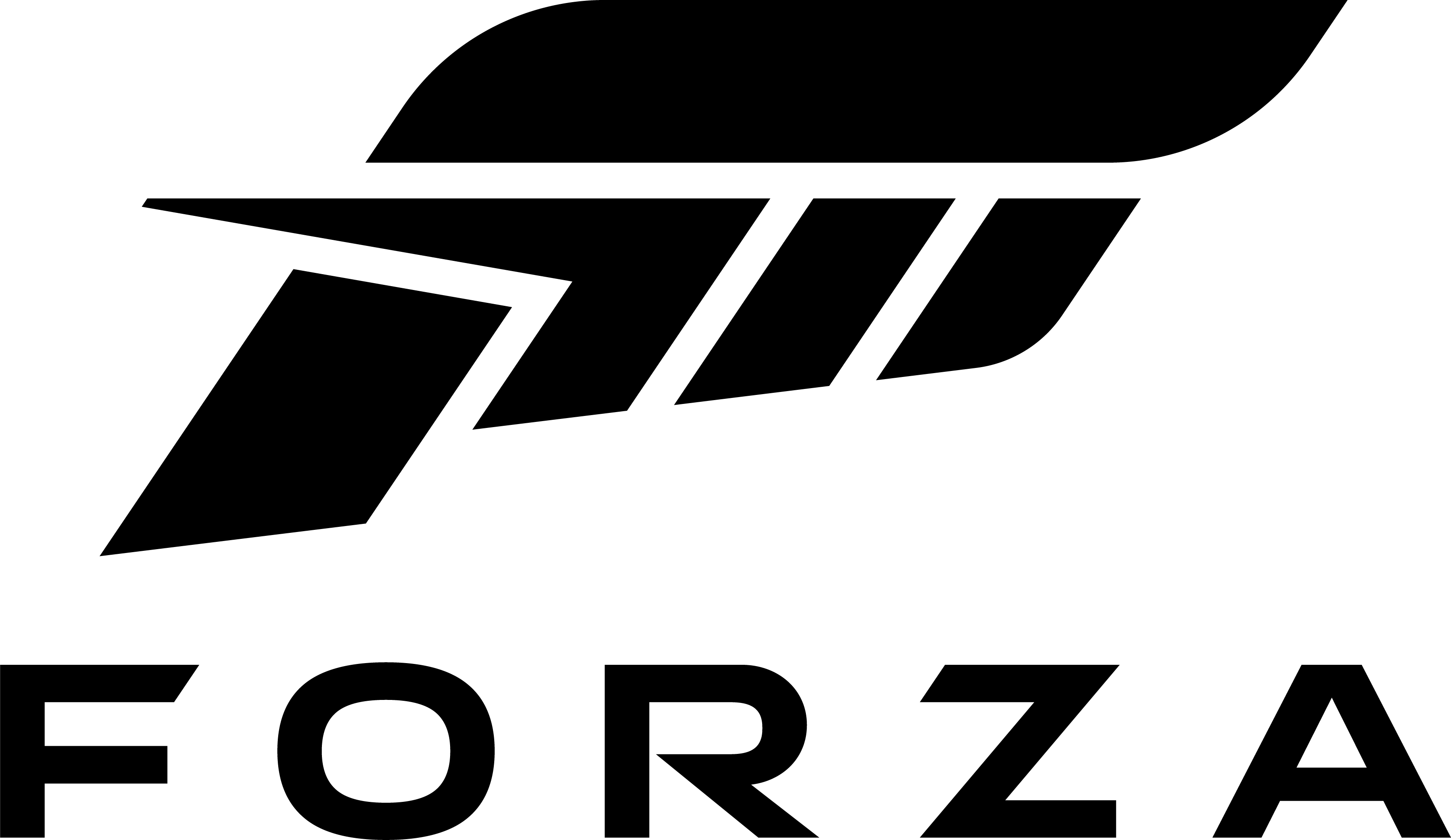 The new logo of the Forza series introduced in 2020 for the upcoming Forza Motorsport game to be released for Xbox Series X and Windows 10.